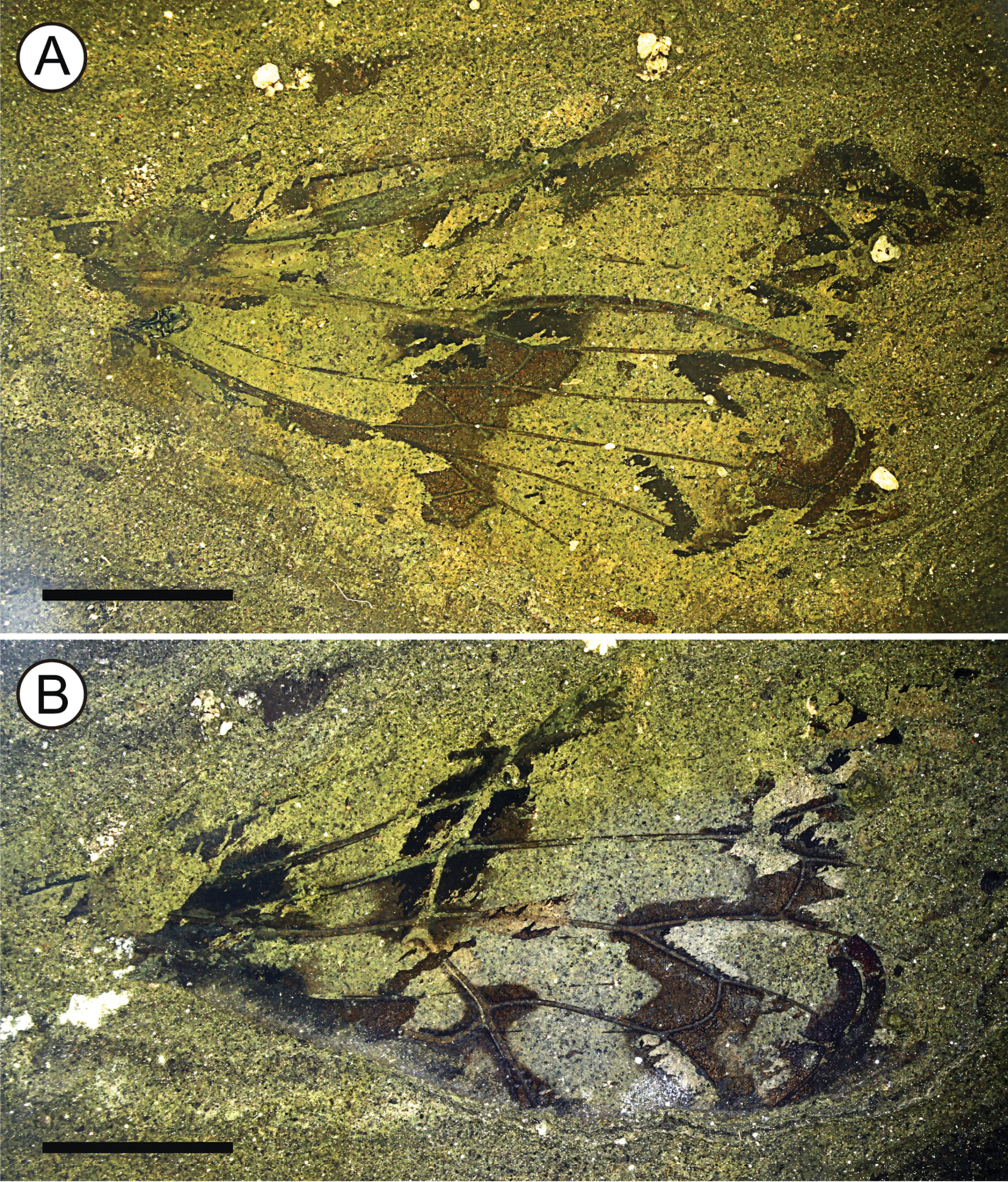 Photomicrographs of Paratettigarcta zealandica., holotype OU45476, fore and hindwing A part and B counterpart (mirror inverted), photographed under ethanol. Scale bar: 5 mm.